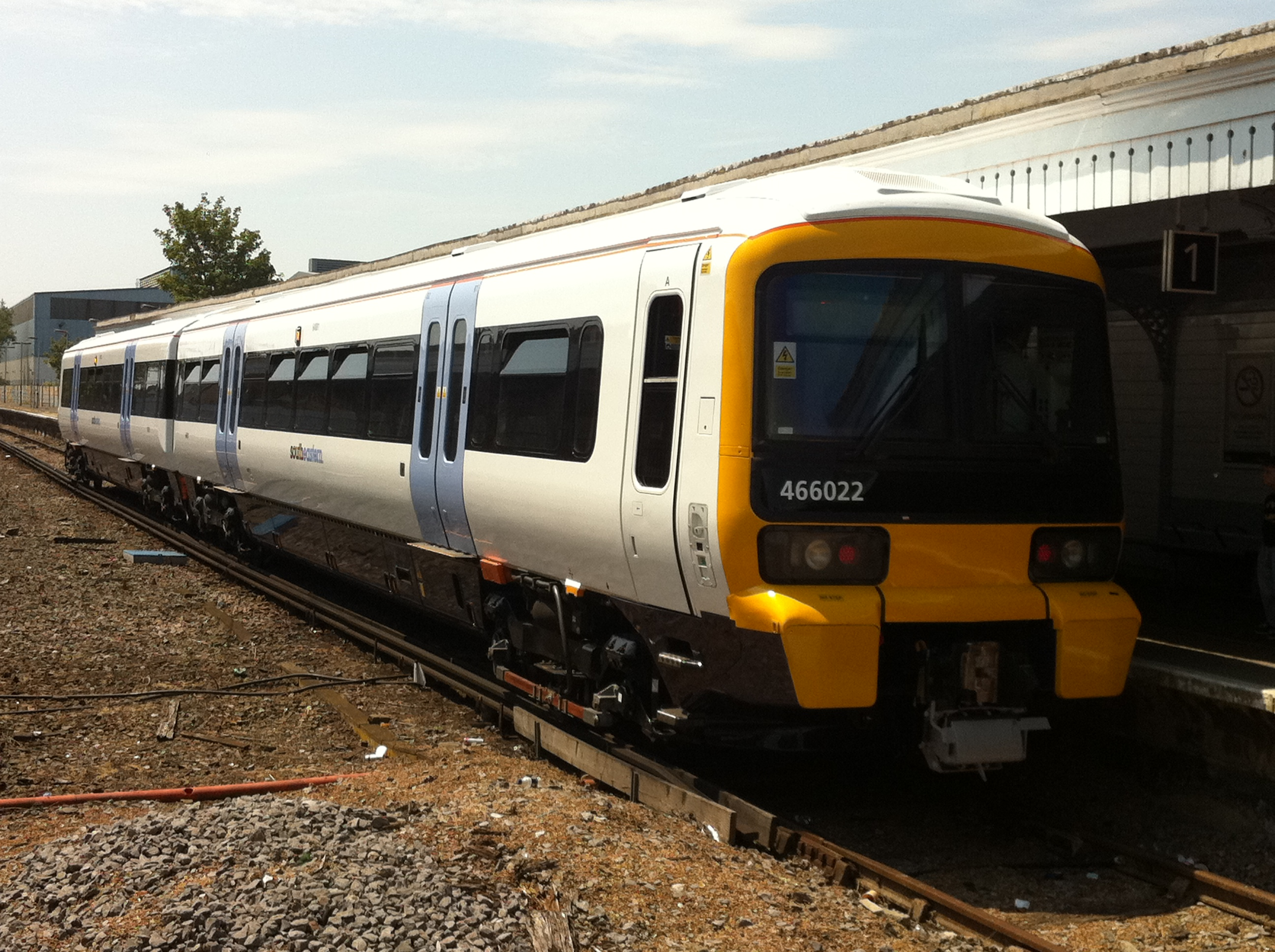 Southeastern Class 466022 'Networker' seen at Sheerness in the new Southeastern livery.